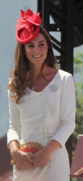 Catherine, Duchess of Cambridge, on her first royal tour, visiting Ottawa for Canada Day celebrations.